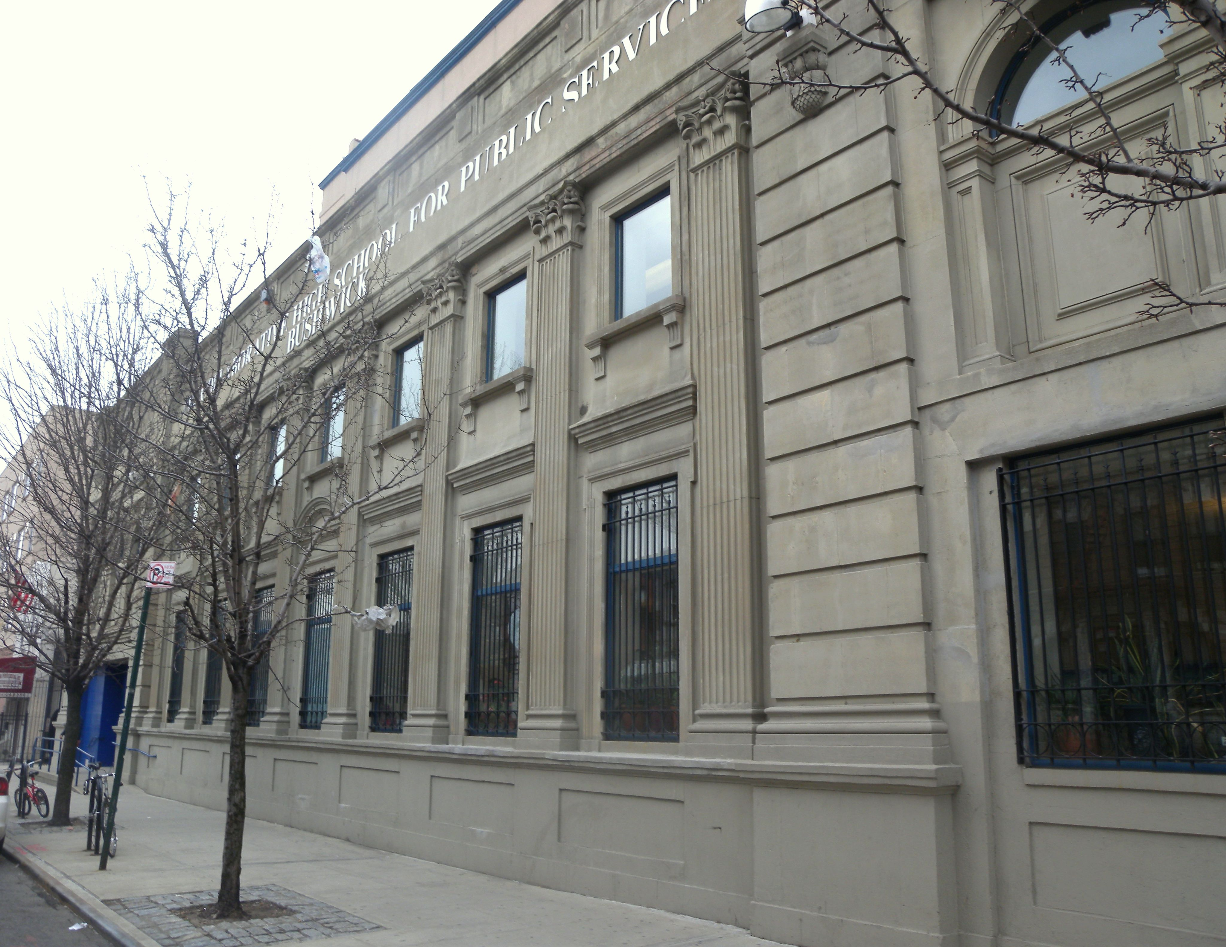 Looking west at EBC High School for Public Service in Bushwick, 115 Dekalb Avenue, ZIP 11221, on a cloudy late morning.